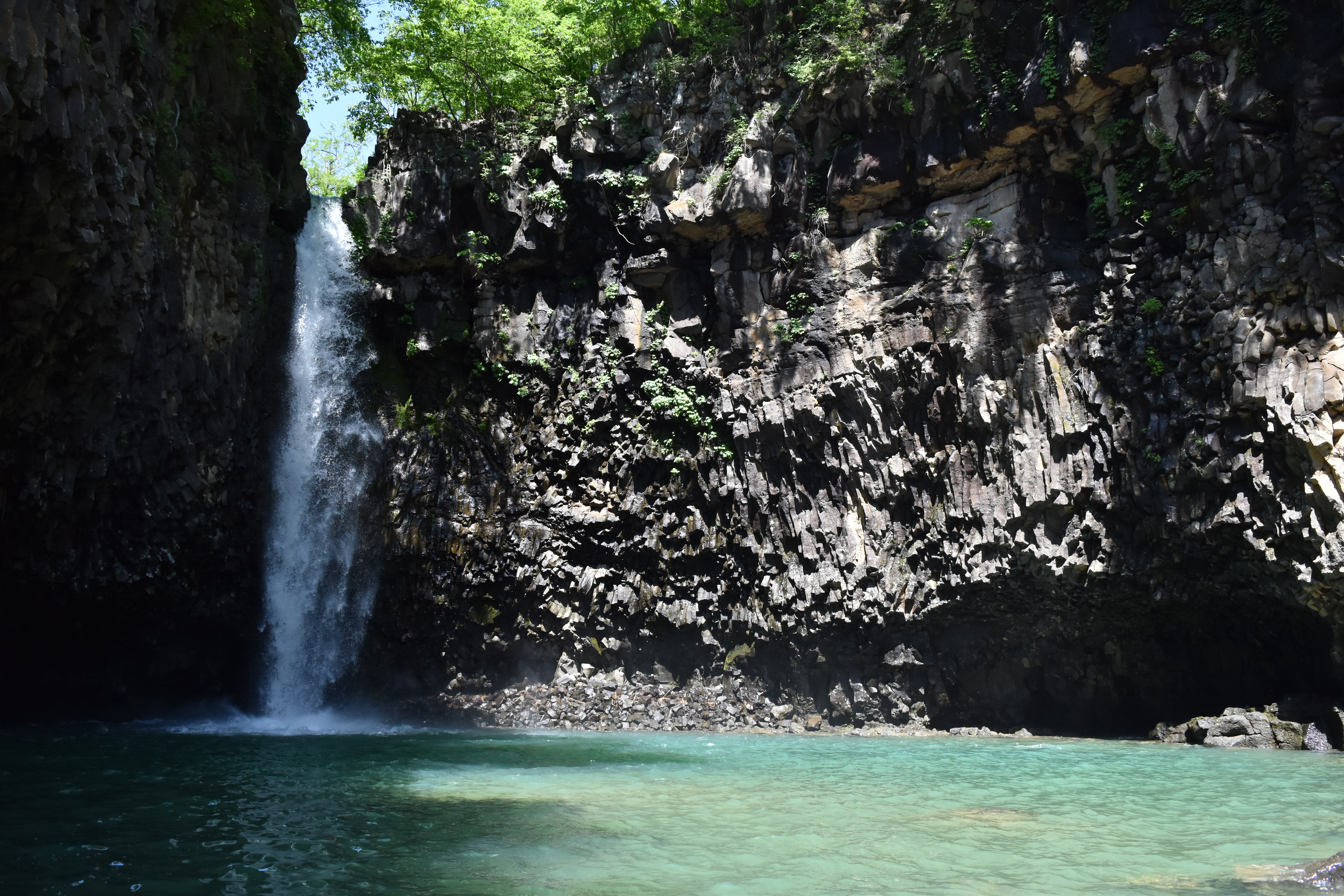 Jaein Pokpo, a fall in Hantan river at Yeoncheon, Gyeonggi-do, South Korea